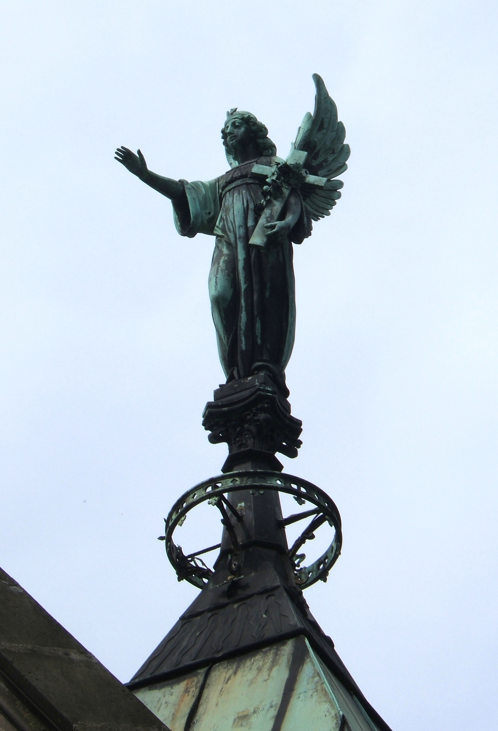 Angel of death on the roof of the mausoleum of the Donnersmarck family in Świerklaniec (19th century)